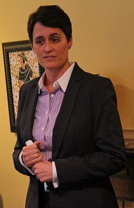 Delegate Mizeur addressing constituents.